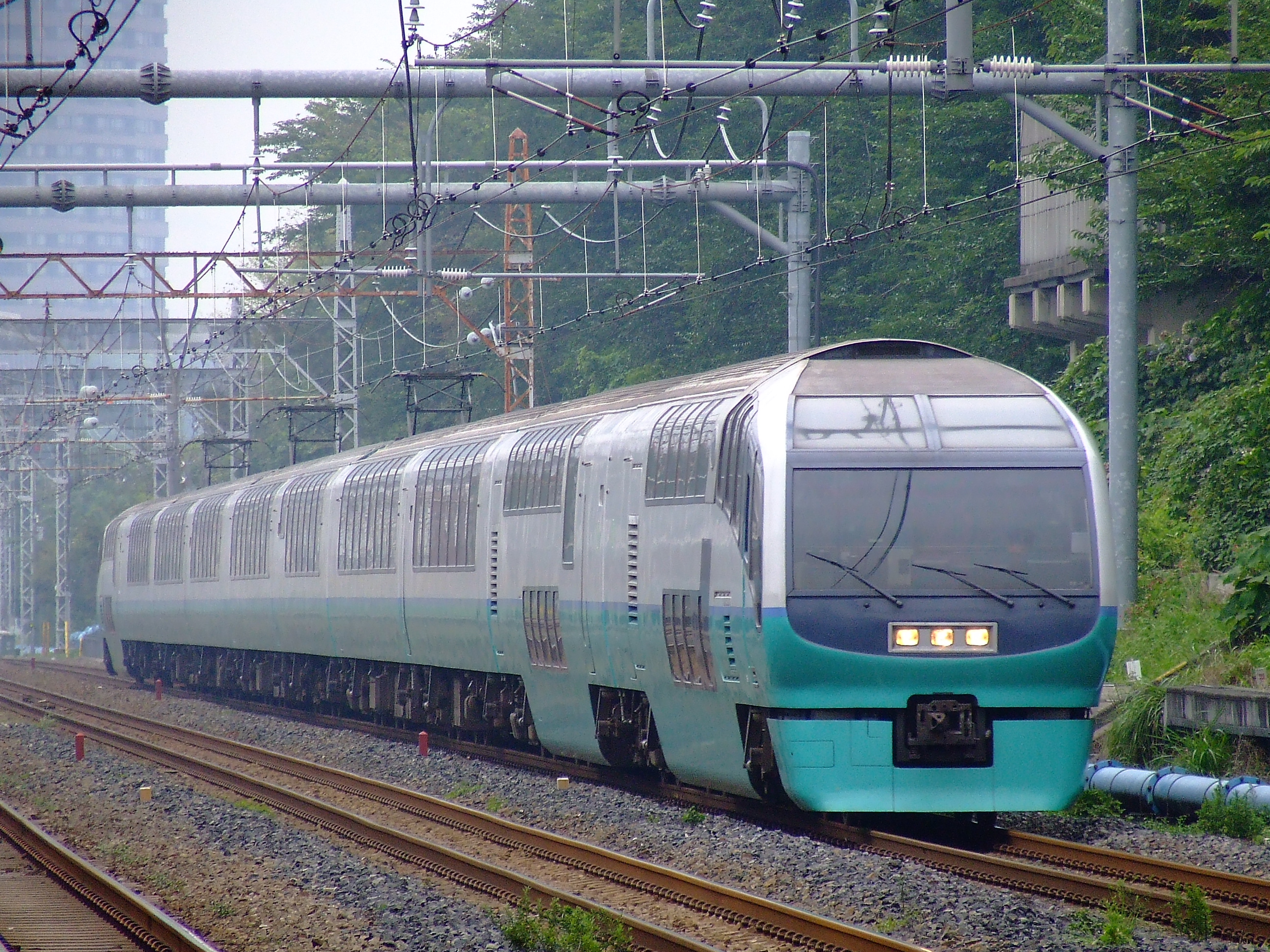 JR East 251 series EMU on a Super View Odoriko service between Shinagawa and Oimachi stations